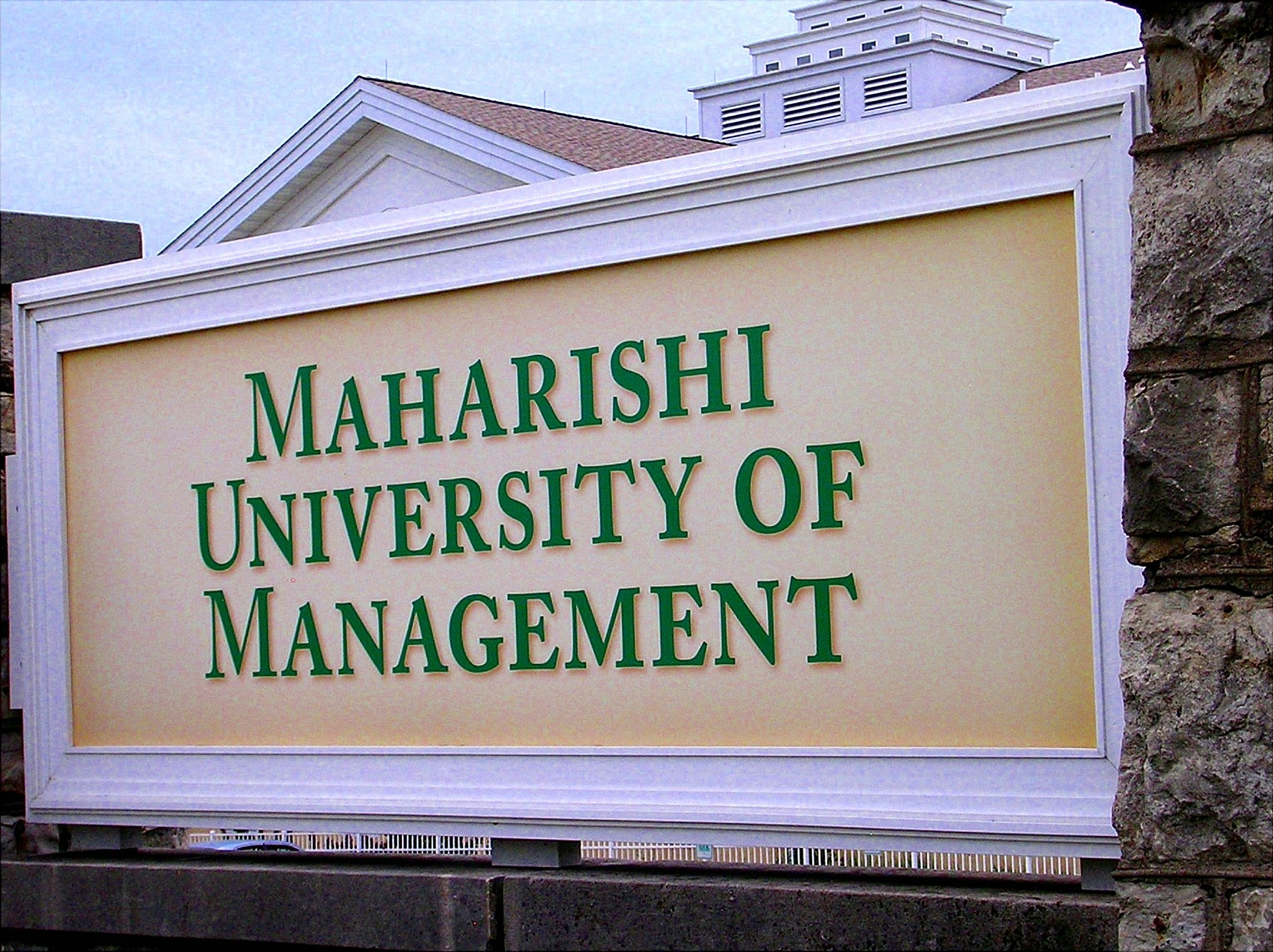 MUM, Fairfield IA, photo taken and submitted by Wiki user Keithbob